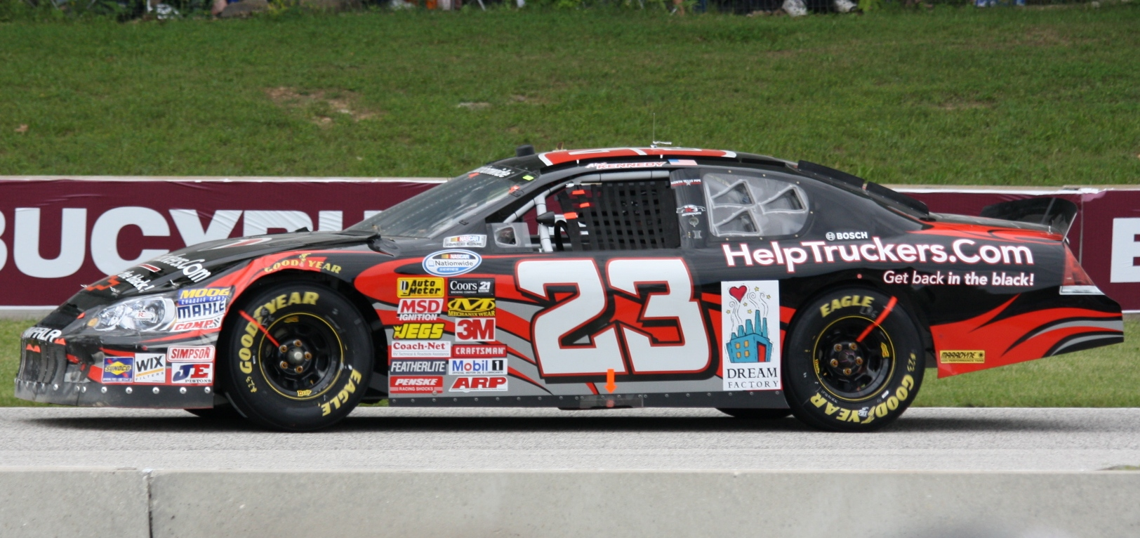 The NASCAR racecar for driver Alex Kennedy at the 2010 Bucyrus 200 at Road America.